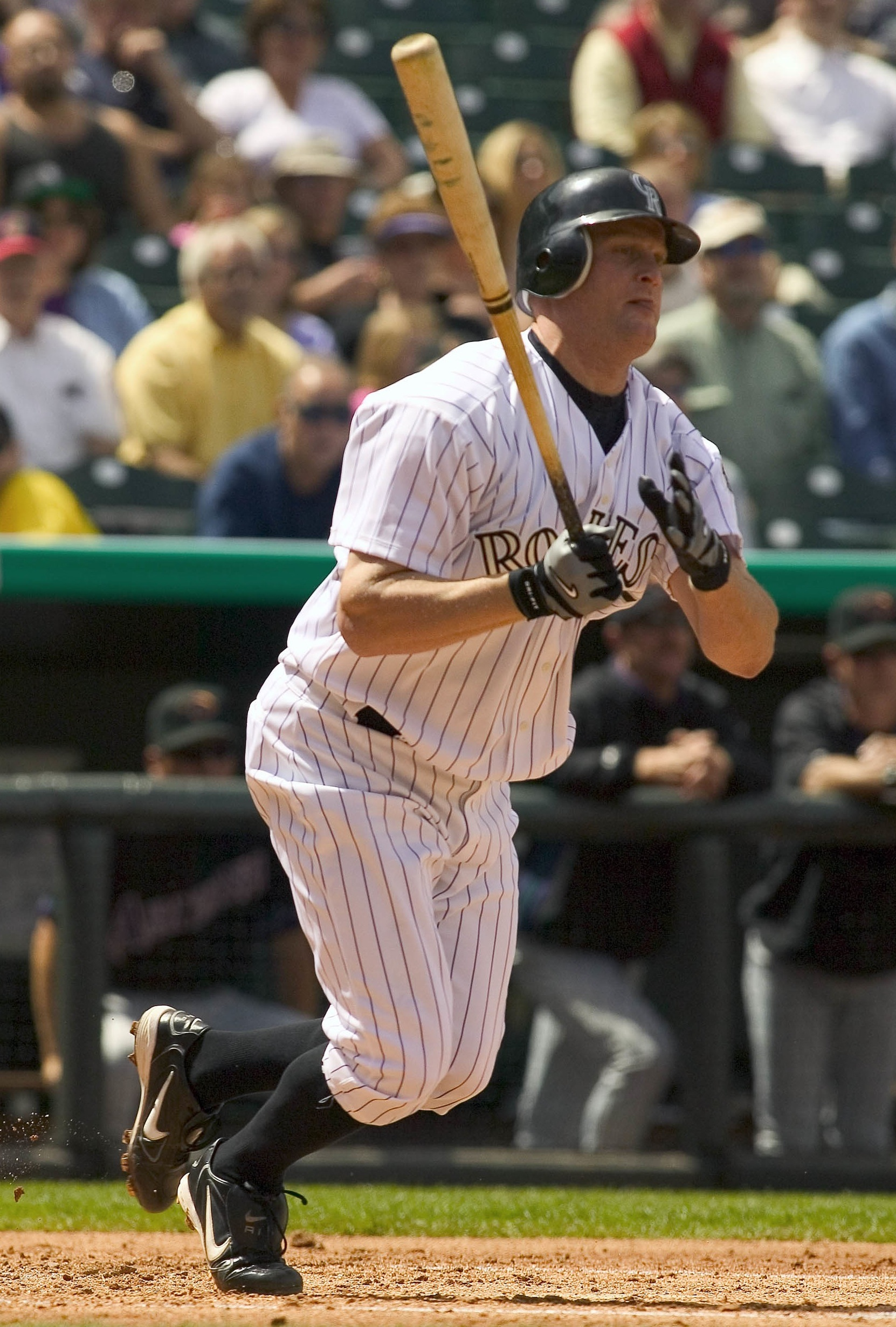 Colorado Rockies outfielder, Jeromy Burnitz.